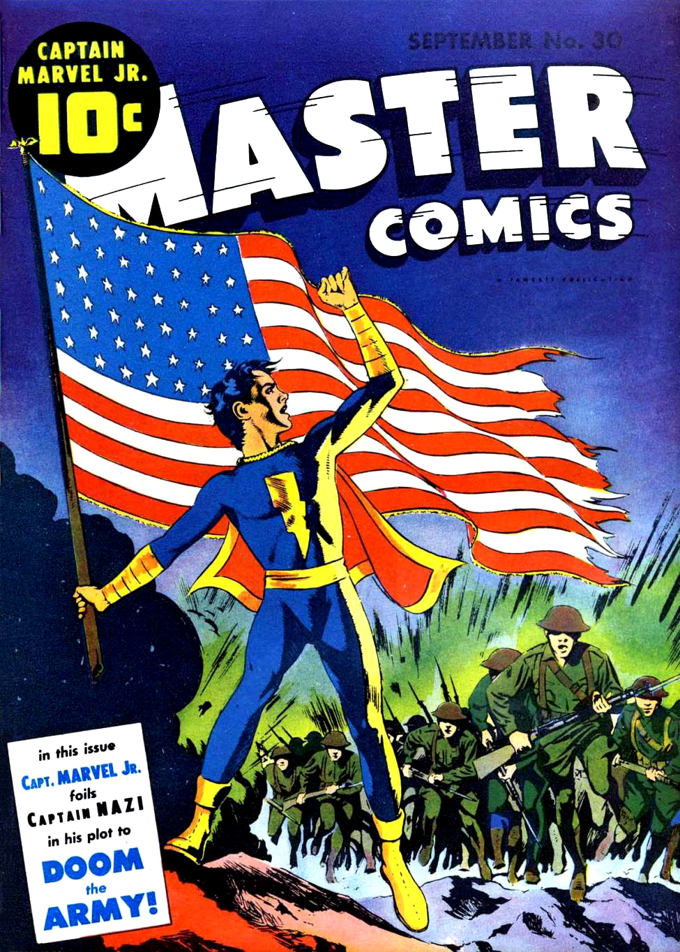 Cover of Fawcett Publications' Master Comics, number 30, September 1942. Artwork by Mac Rayboy; image is in the public domain due to lapsed copyright.